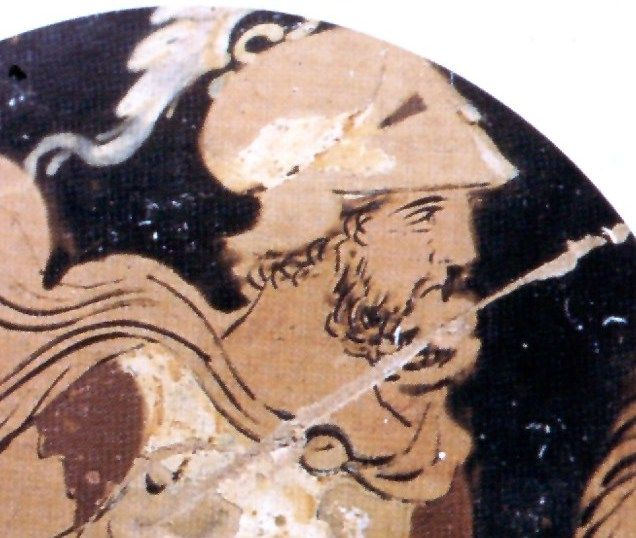 Fragment on Apulian amphora by the Darius Painter. Naples Nat'l Mus.